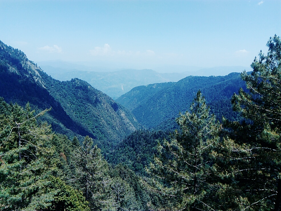 Ayubia Trip Picture